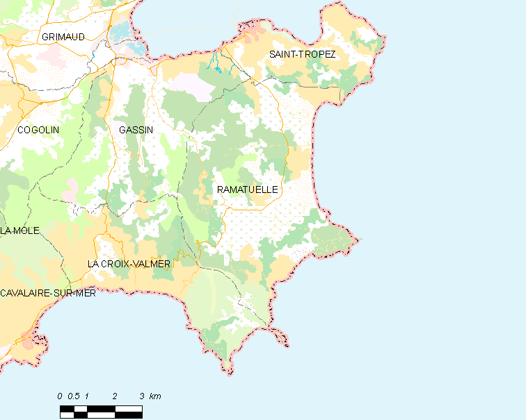 Map of French municipality Ramatuelle